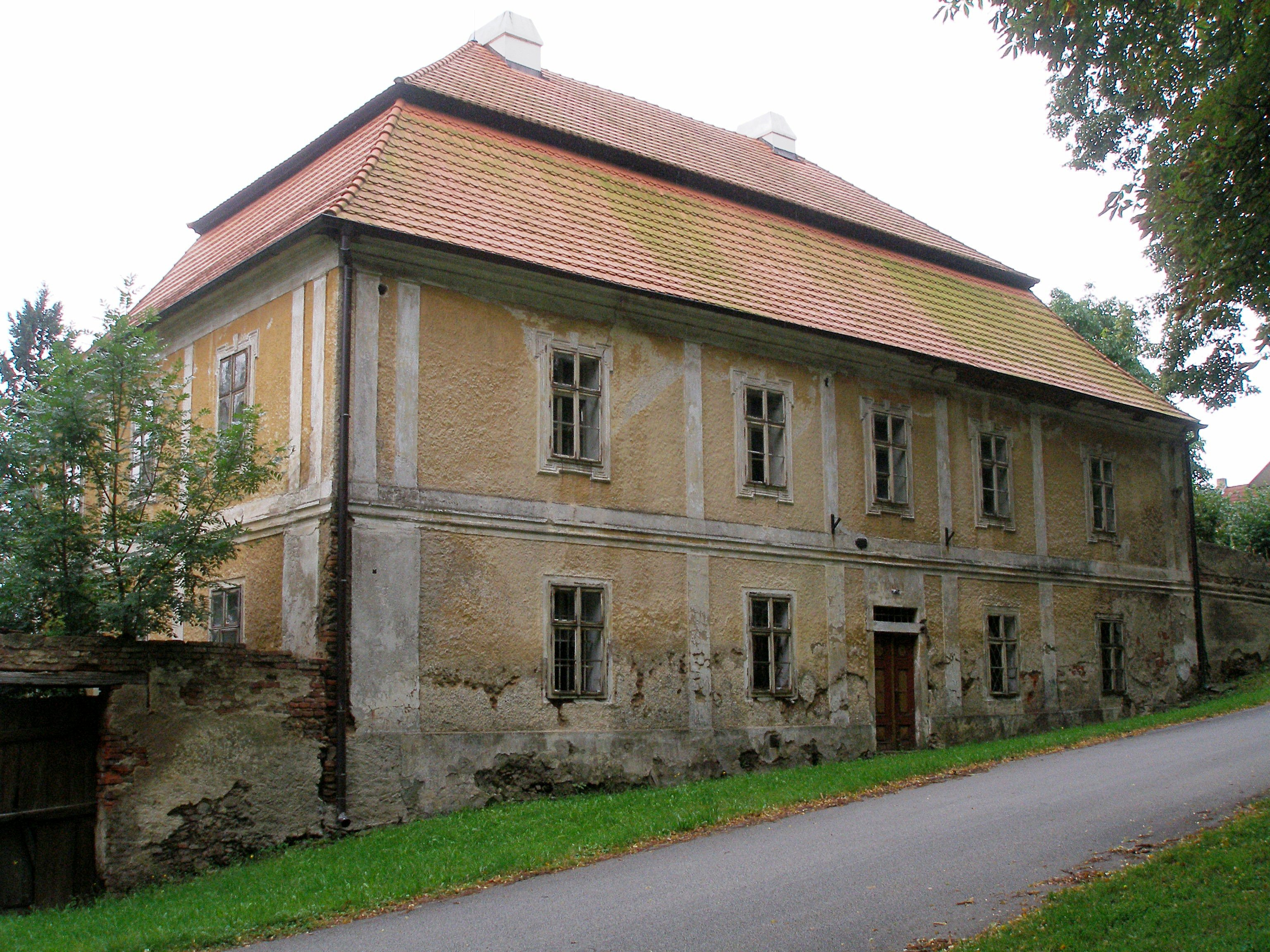 The presbytery in Velká Chyška